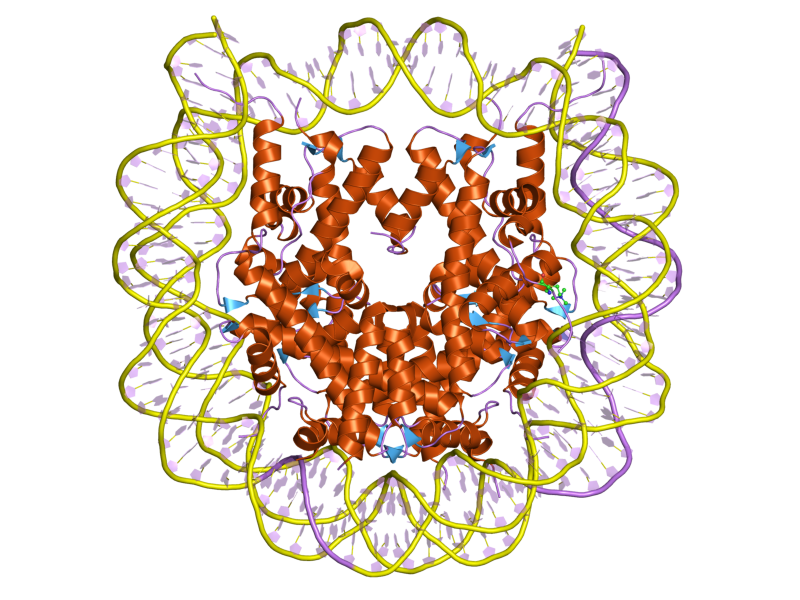 Cartoon representation of the molecular structure of protein registered with 3c1b code.